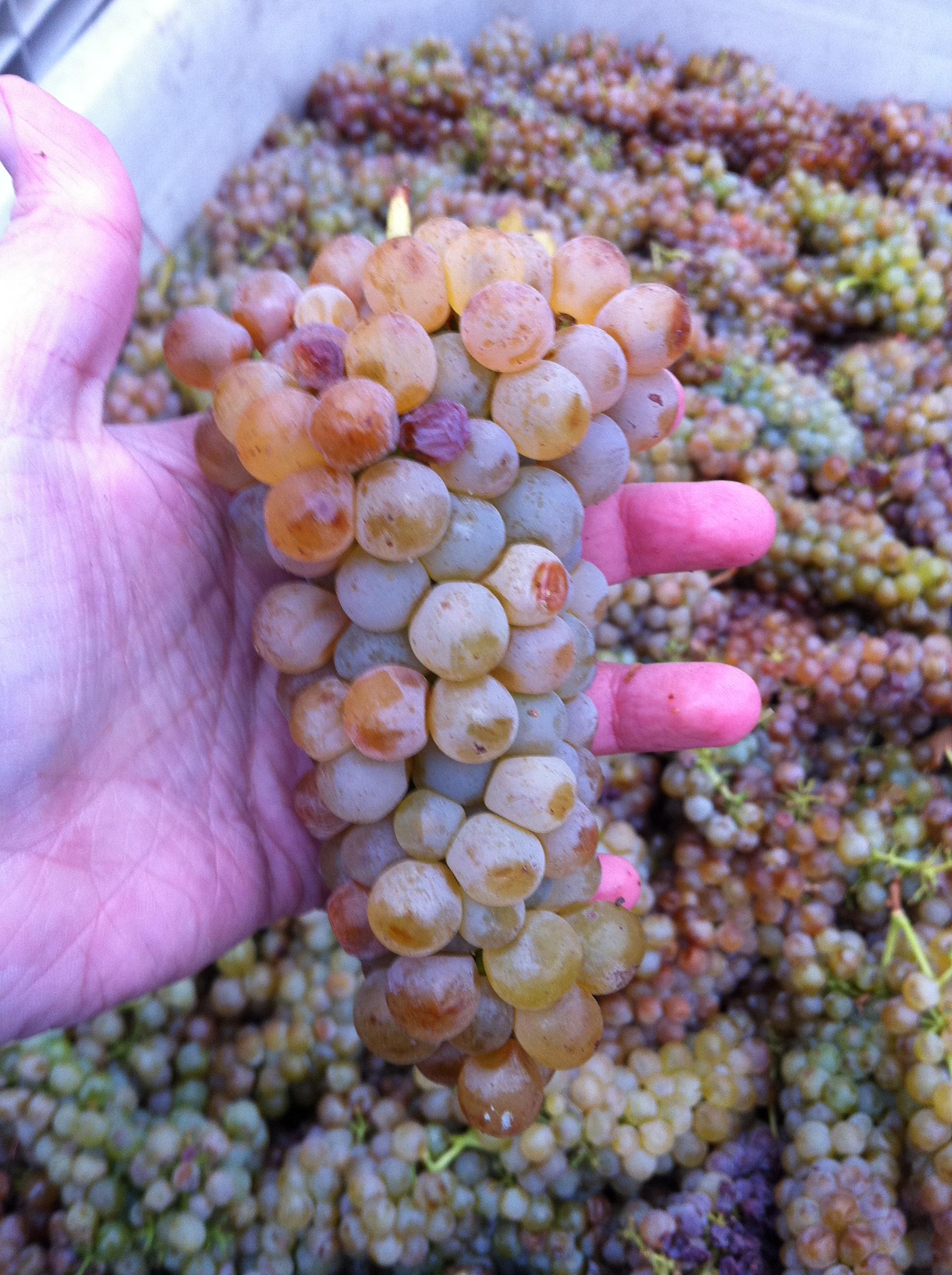 Cluster of semillon grapes grown in the Columbia Valley of Washington State